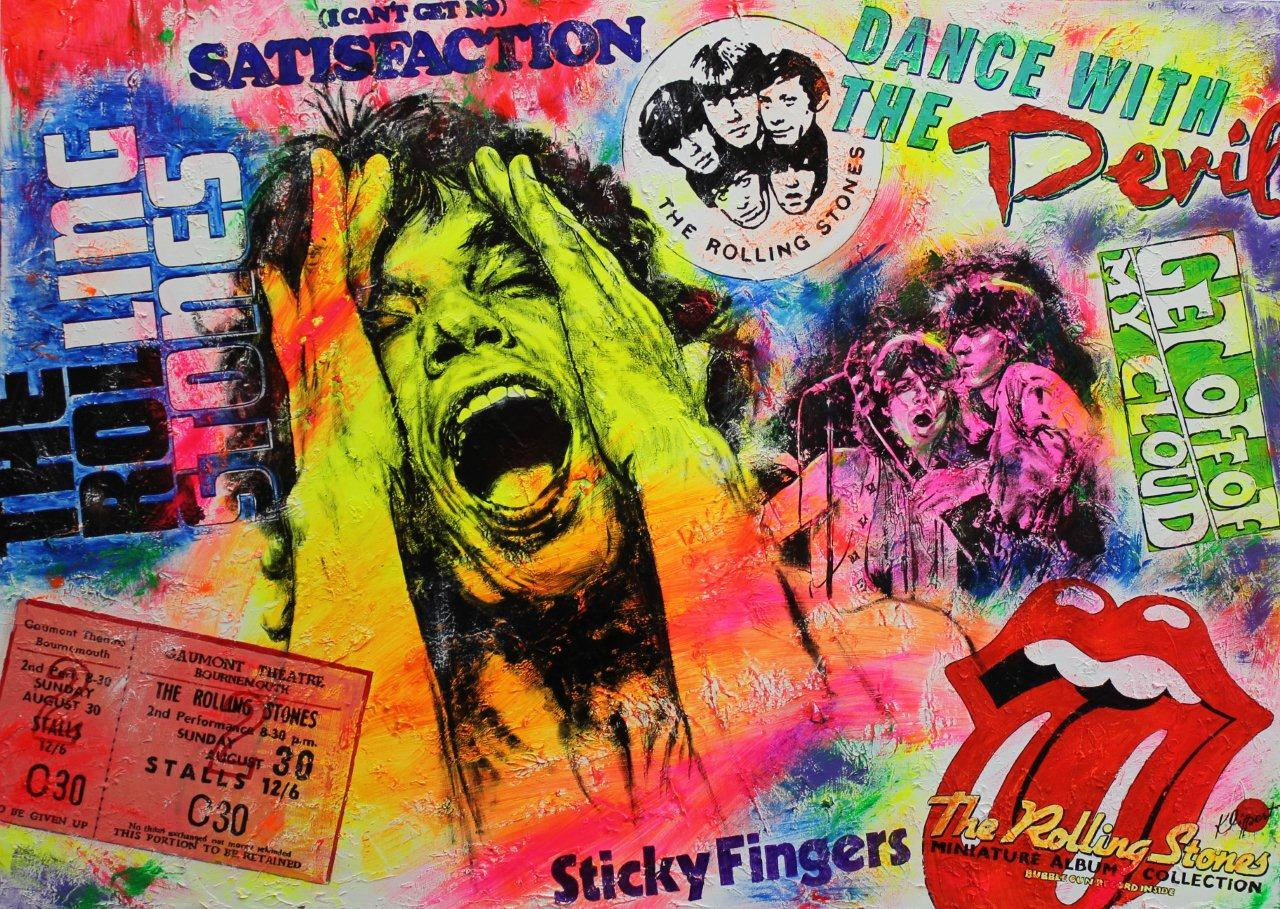 Pop-Art "Mick Jagger" by Silvia Klippert